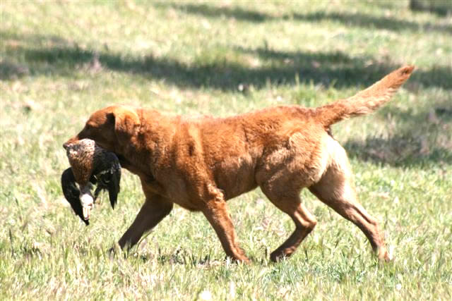 A Chesapeake Bay Retriever retrieving a Mallard.